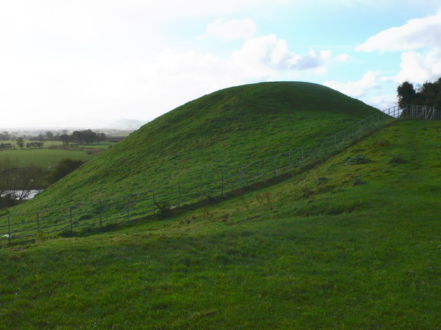 Twthill This is the site of the first castle in Rhuddlan, which was a motte and bailey castle raised by Robert of Rhuddlan in 1073. According to the Domesday book (1086), William the Conqueror granted him power over the whole of north Wales beyond the Clwyd for an annual rent of £40. On top of this mound, the "motte", there would have been a wooden stockade and tower.